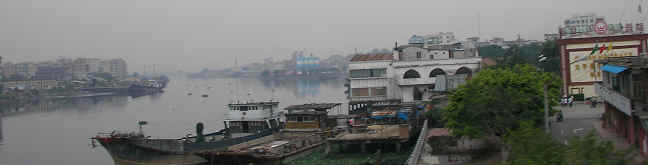 Photo of Humen Town, Dongguan, Guangdong, China